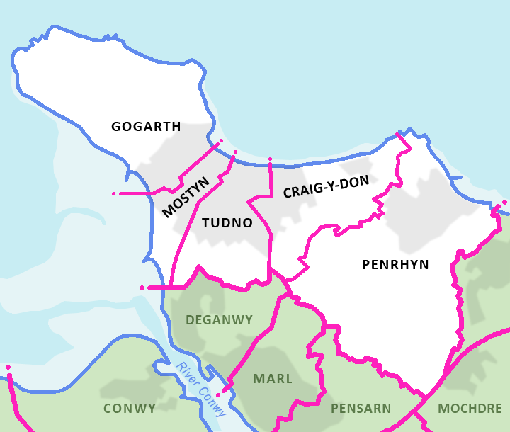 Electoral wards in the town (community) of Llandudno, Conwy County Borough, which elect ten county councillors to Conwy County Borough Council and twenty city councillors to Llandudno Town Council